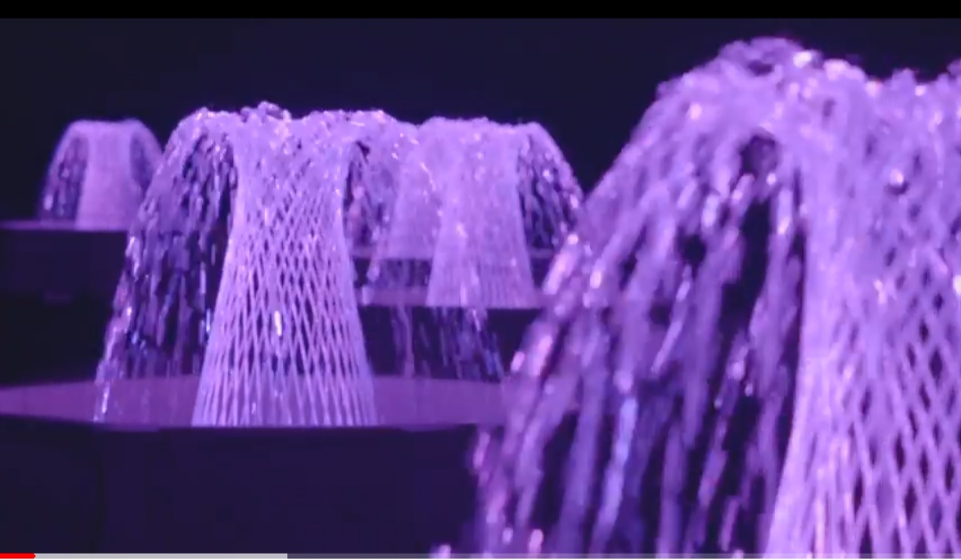 Longwood